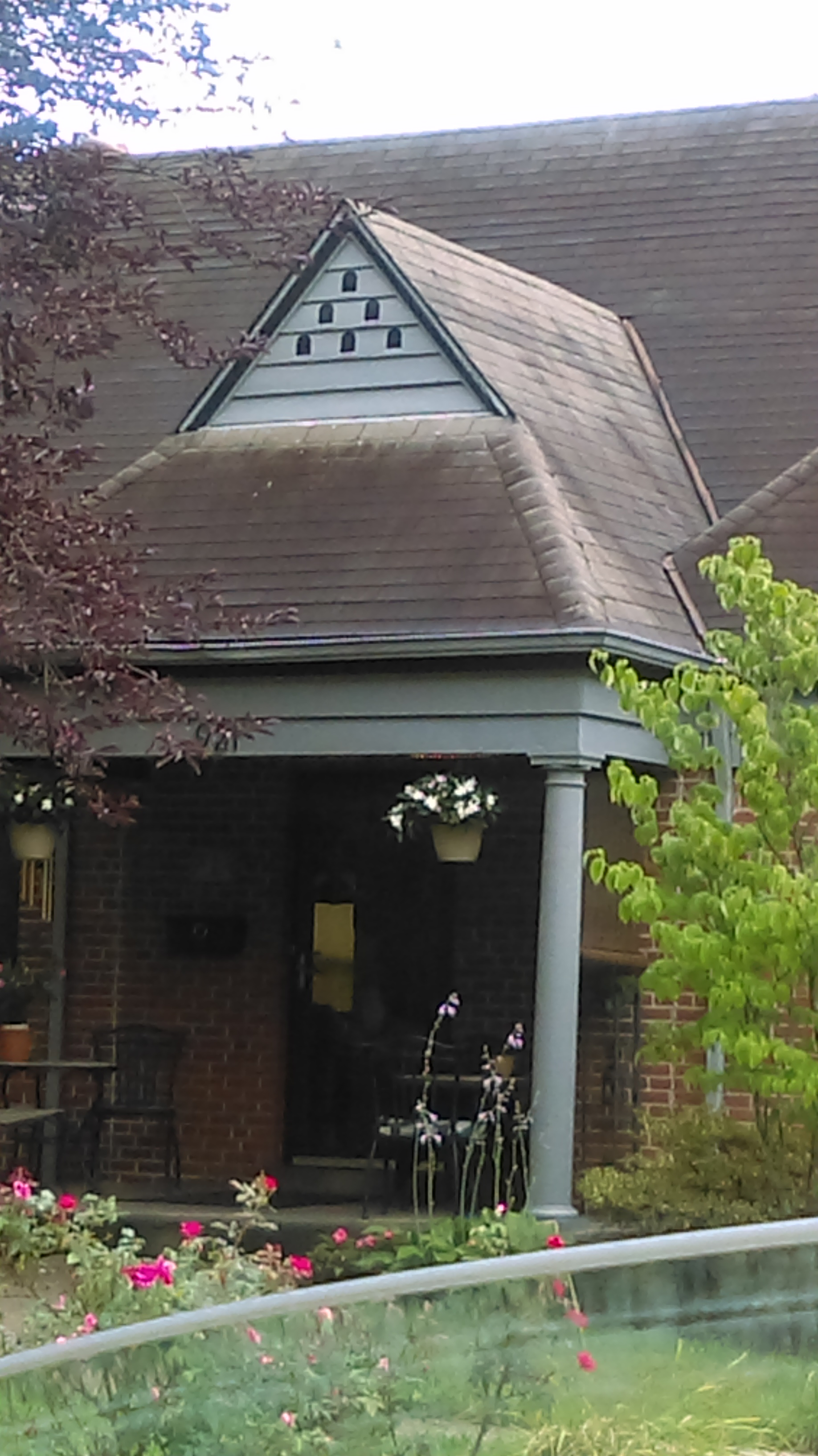 Decorative "dovecote" in the gable of a house in Finneytown Ohio.